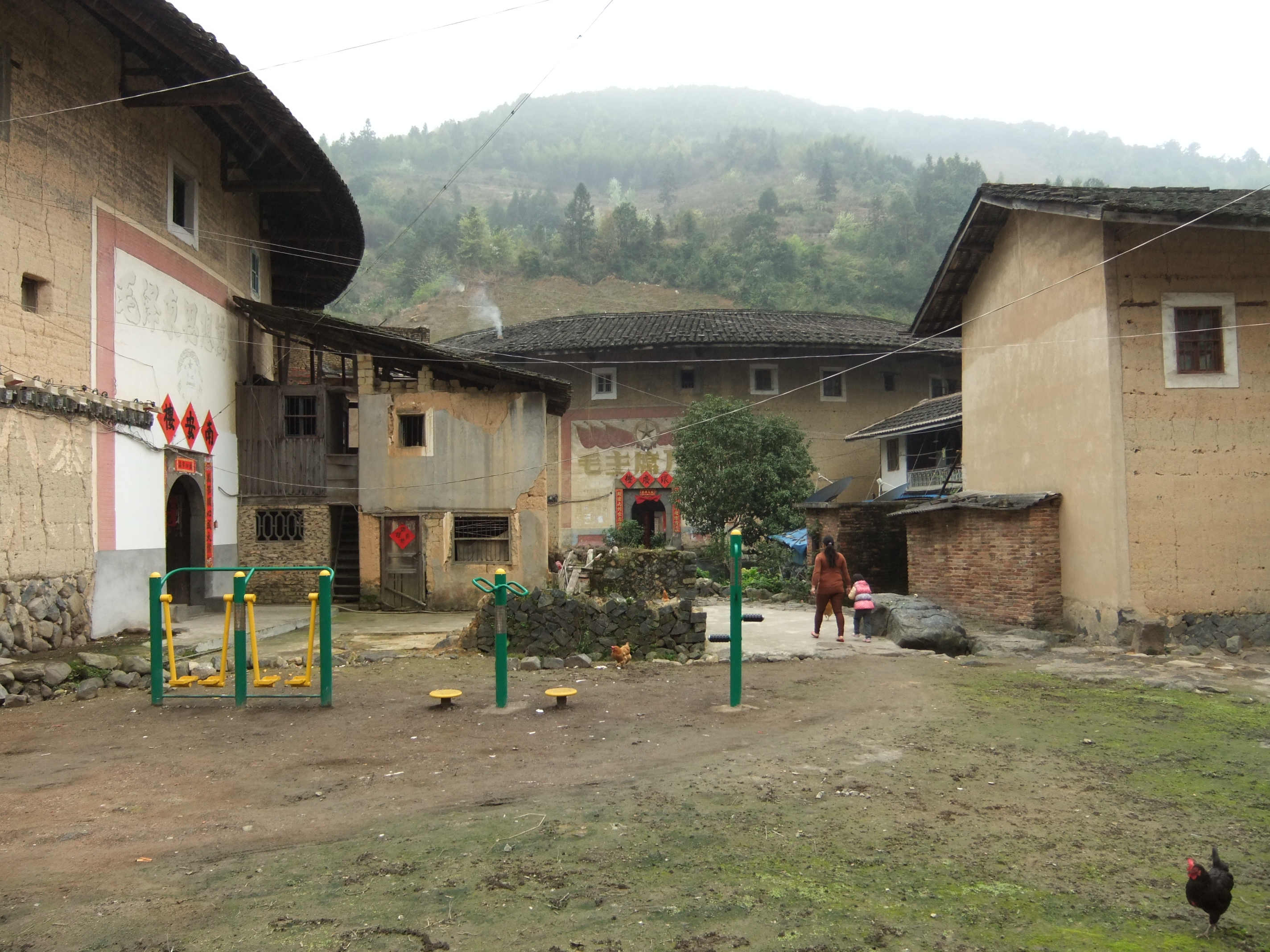 Shijia Village in Hukeng Township, part of the "Great Wall of Tulou". The village's "central square" area.